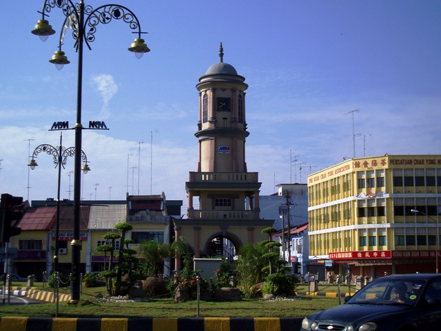 Muar clock tower